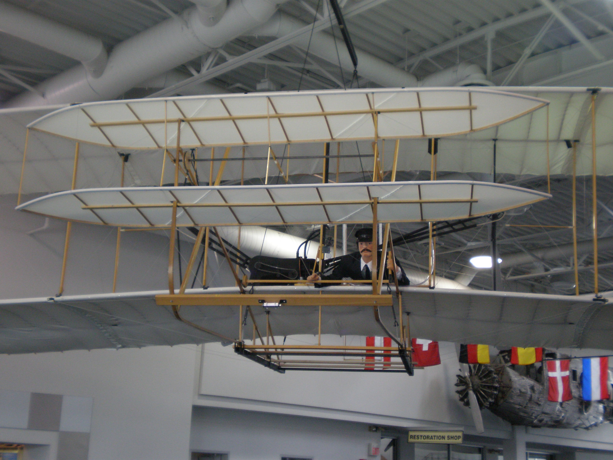 Closeup view of the front of the Wright Flyer on display at the Hiller Aviation Museum in San Carlos, California.